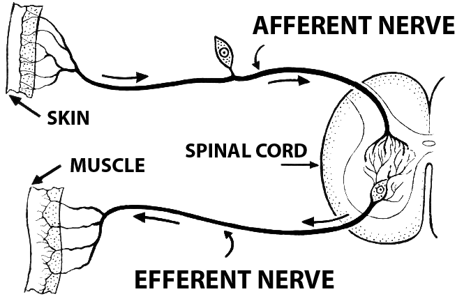 line art drawing of the afferent nerve, cleaned up by Micze